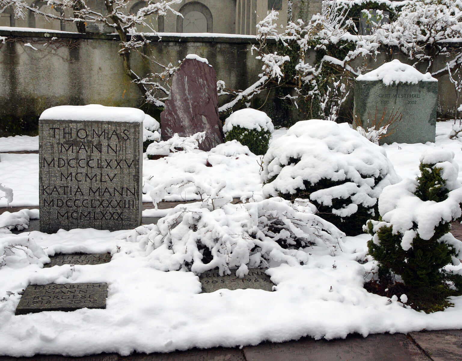 Graves of Thomas Mann and family members; to the right that of Gert Westphal